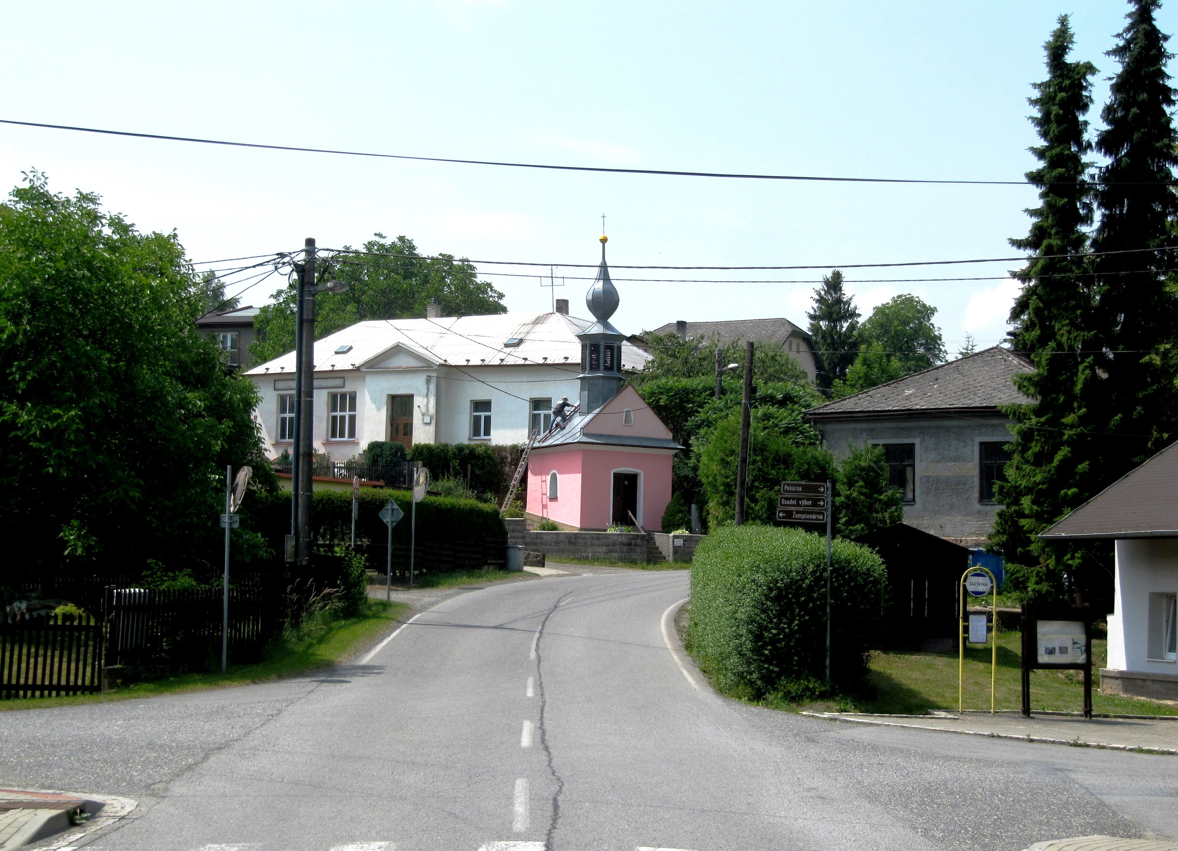 Bílovec, Nový Jičín District, Czech Republic, part Lhotka.